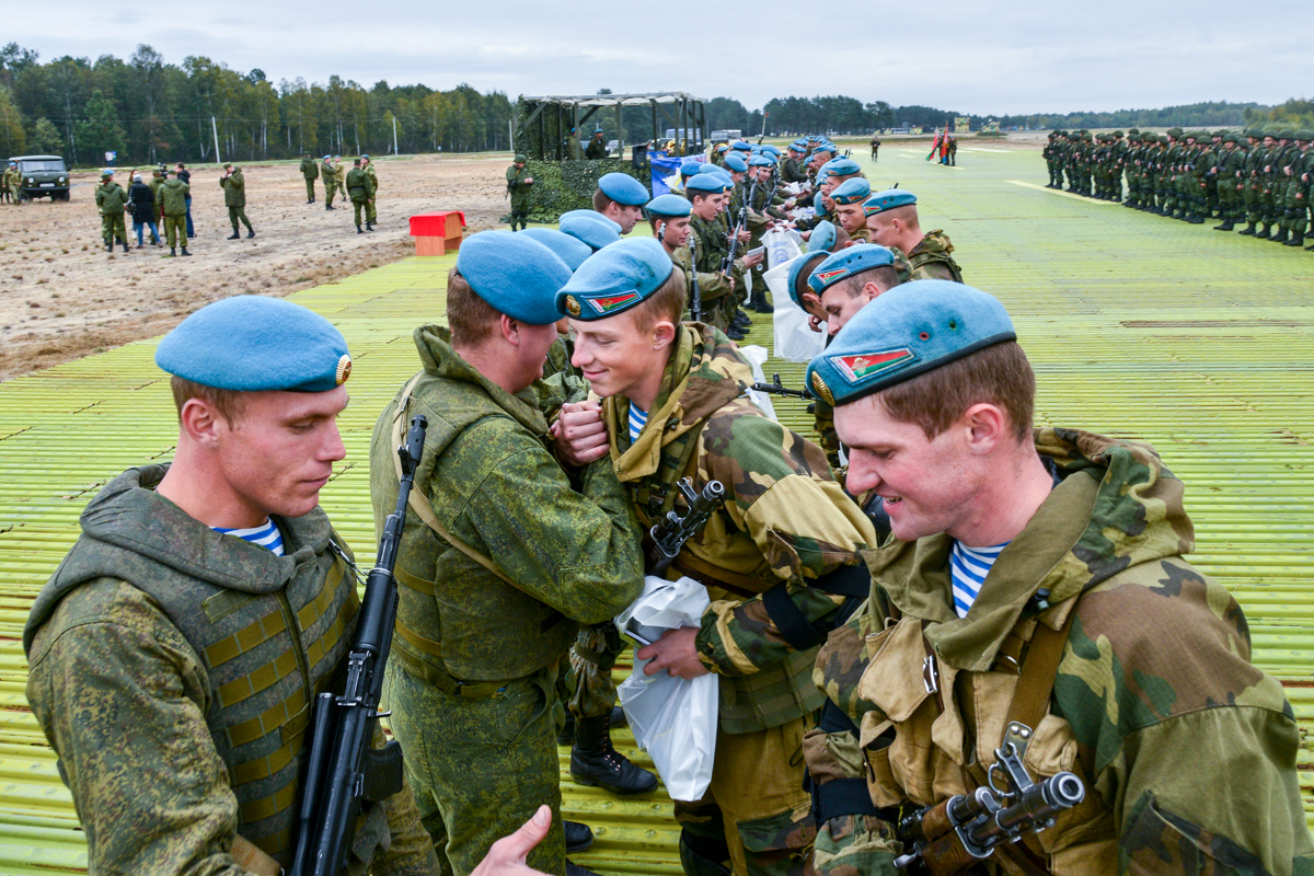 Russian 137th Guards Parachute Landing Regiment and Belarusian 38th Separate Guards Air Assault Brigade.